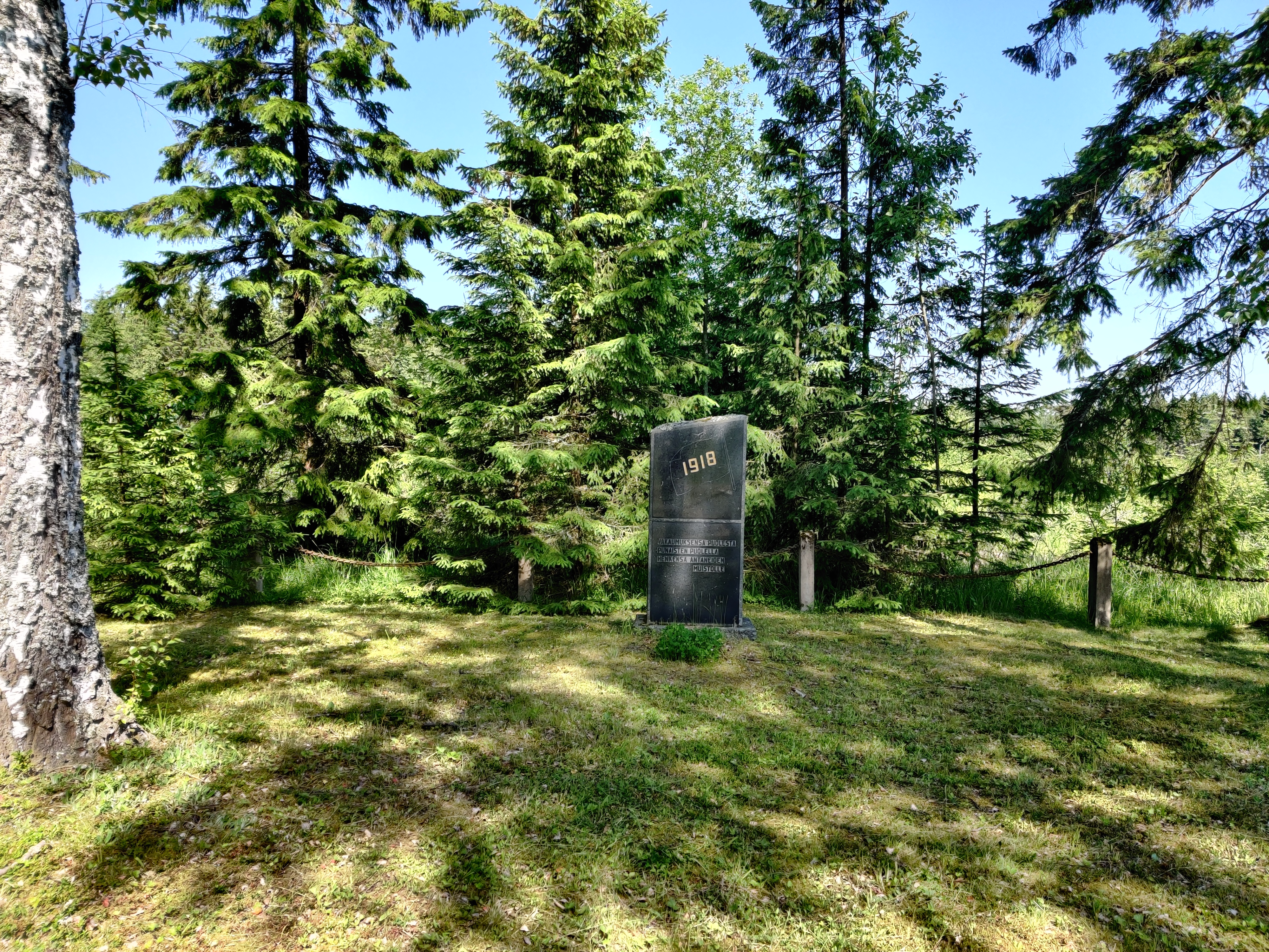 Memorial of the Red Guards' casualties of the Finnish Civil War in Isosaari